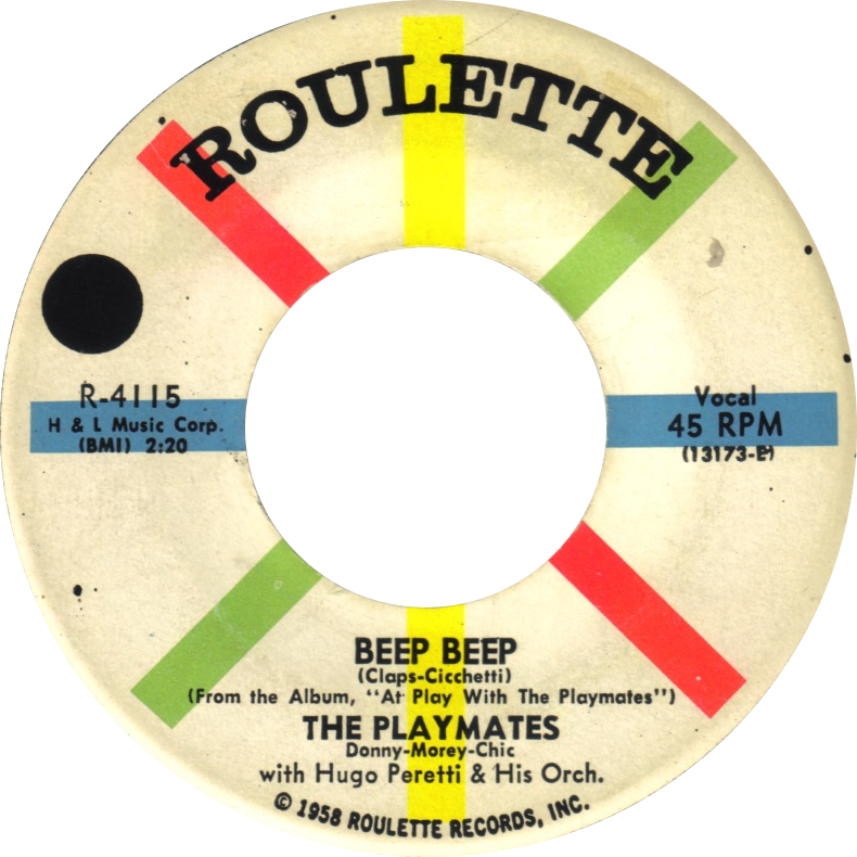 One of the side-A labels of the original 1958 US vinyl single release of "Beep Beep" by The Playmates. This label contains solid black circle at the upper-left portion. Another label contains a white asterisk and a tiny white dot within the black circle.